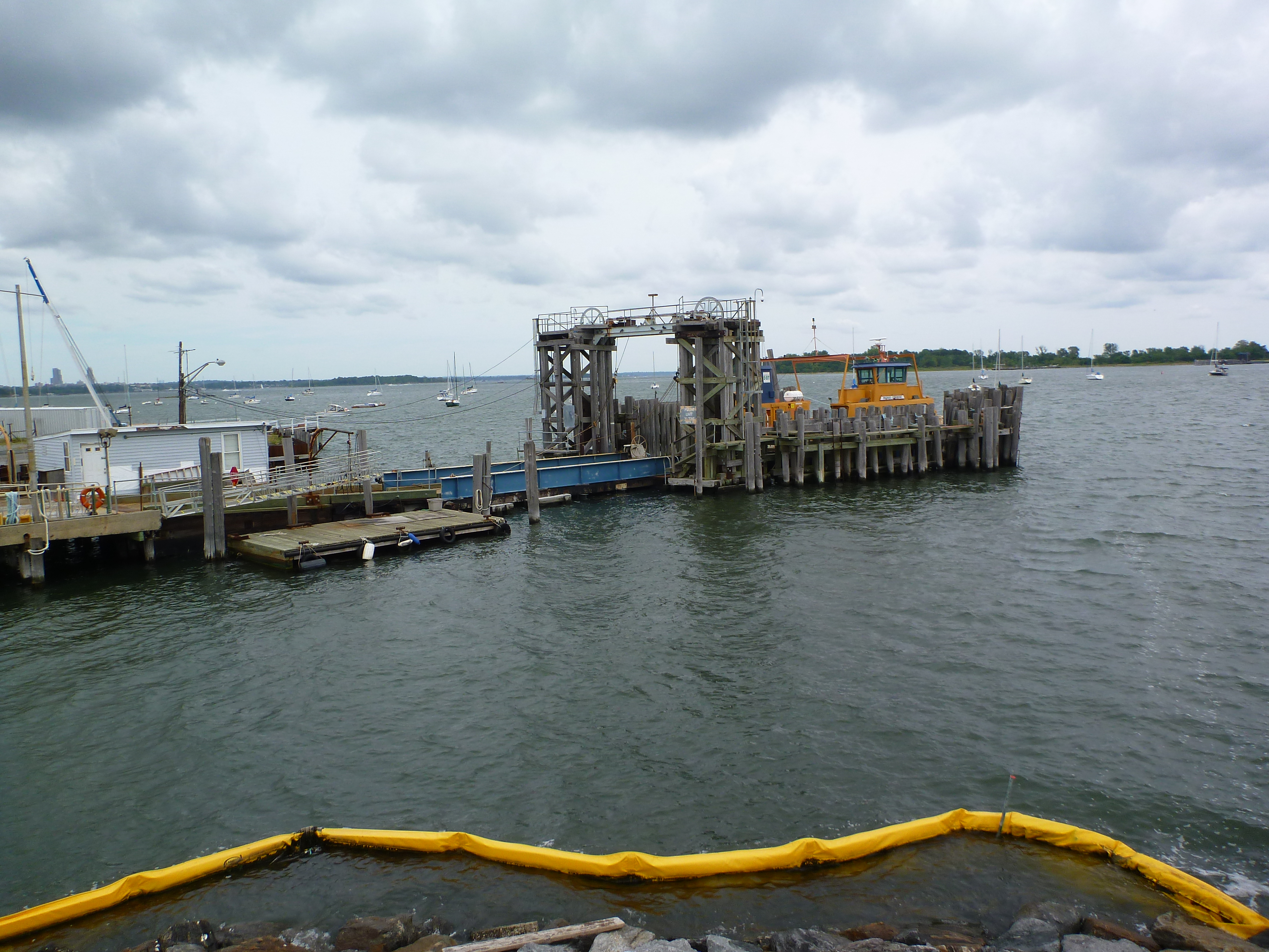 Pier and Ferry from City Island to Hart Island